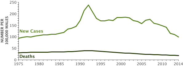 New cases and deaths from prostate cancer in the United States per 100,000 males.